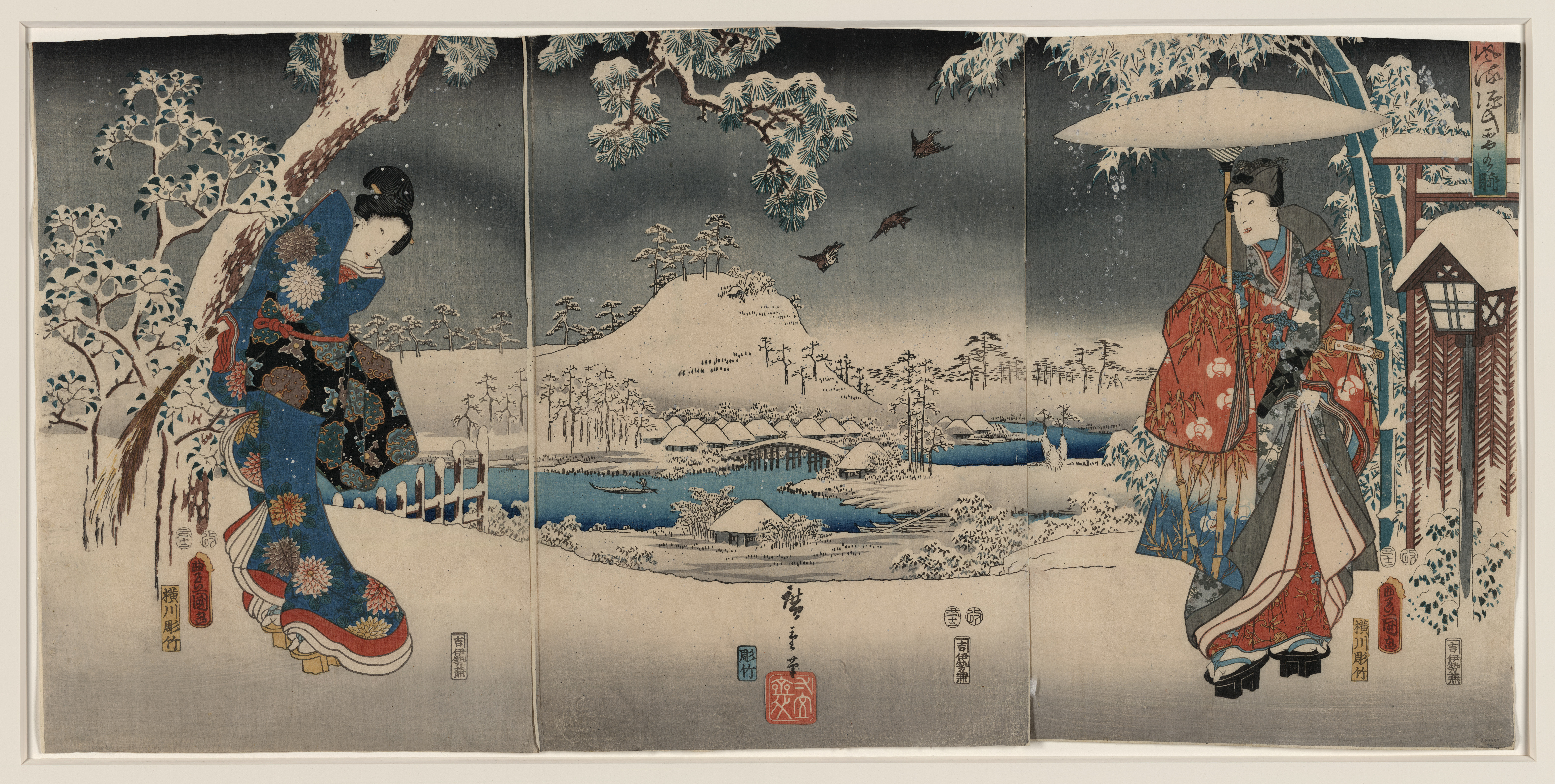 Ukiyo-e triptych print showing a snowy landscape with a woman brandishing a broom and a man holding an umbrella. A modern version of the Tale of Genji in snow scenes. 1 print (3 sheets) : woodcut, color ; 36.8 x 76.1 cm (whole image), 36.4 x 25.4 cm (left panel), 36.8 x 25.1 cm (center panel), 36.5 x 25.6 cm (right panel). Format: Vertical Oban Nishikie triptych.